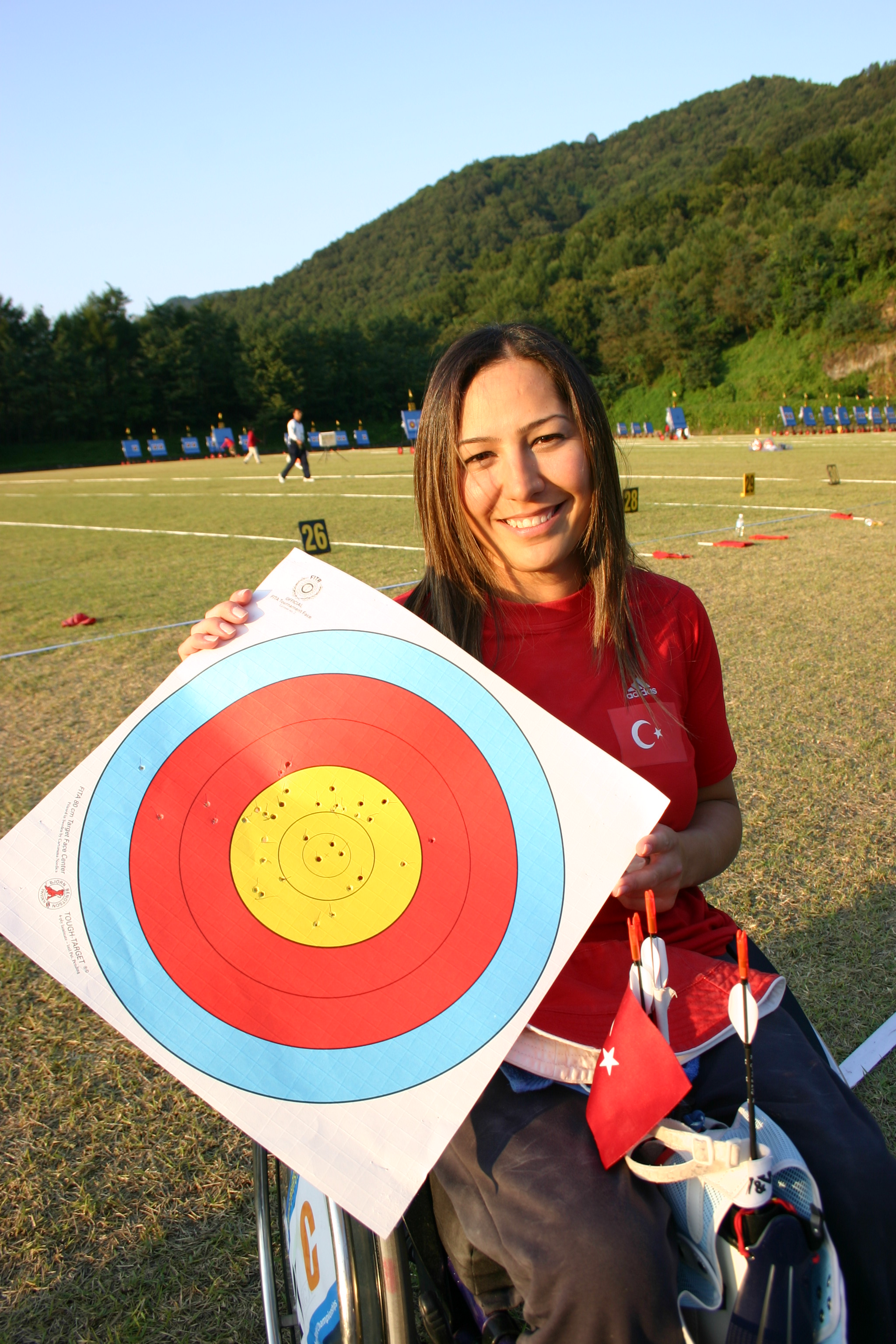 Gizem Girişmen with her target paper.